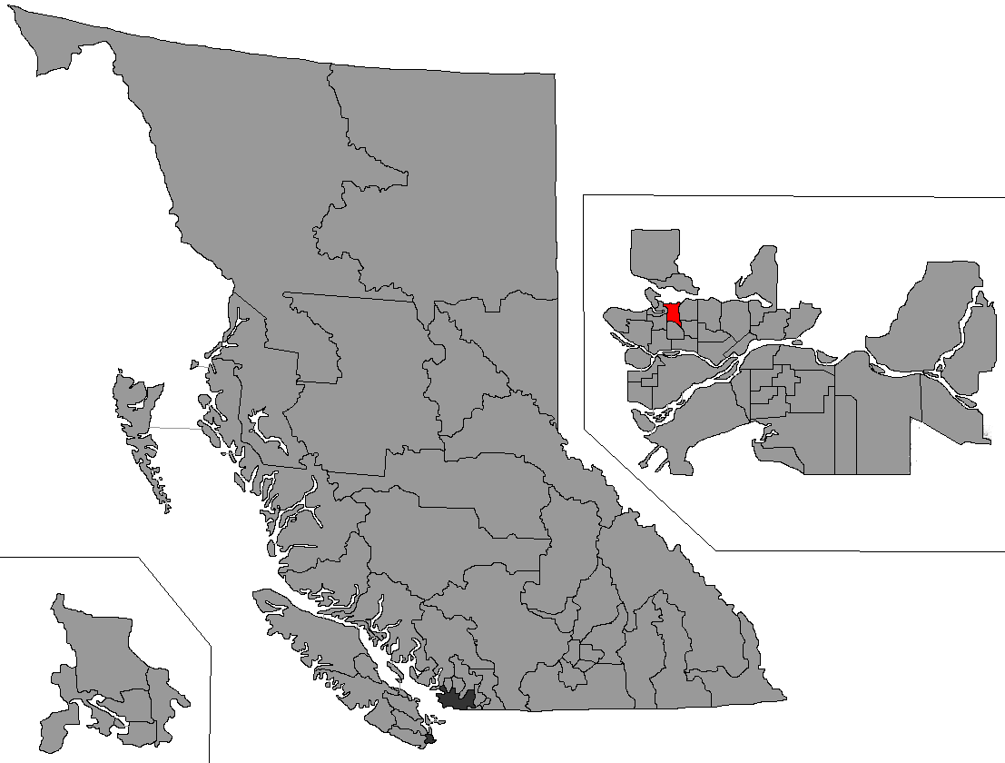 British Columbia 2015 electoral district redistrubution